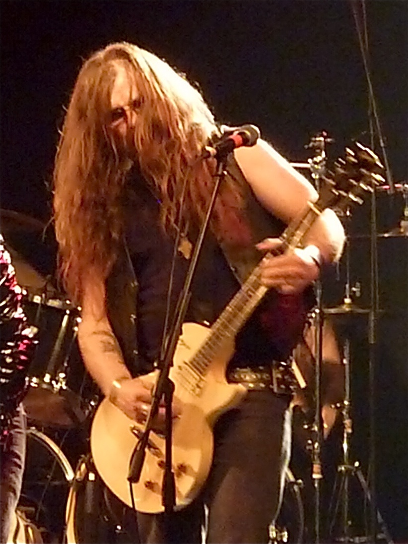 Victor Griffin, guitarrista de Pentagram, actuando en el festival Hammer of Doom.